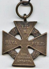 Griechenland, Denkzeichen für das Bayerische Hilfskorps, 1833, Rückseite Insciption reads ΤΩι Β (ΒΑΣΙΛΙΚΩ) ΒΑΥΑ - ΡΙΚΩι ΕΠΙ ΚΟΥΡΙΚΩι ΣΤΡΑΤΩι ΤΩι Β ΒΑΥΑΡΙΚΩι ΕΠΙΚΟΥΡΙΚΩι ΣΤΡΑΤΩι meaning: ΤΩ ΒΑΣΙΛΙΚΩ ΒΑΥΑΡΙΚΩ ΕΠΙΚΟΥΡΙΚΩ ΣΤΡΑΤΩ TO THE ROYAL BAVARIAN AUXULIARY ARMY